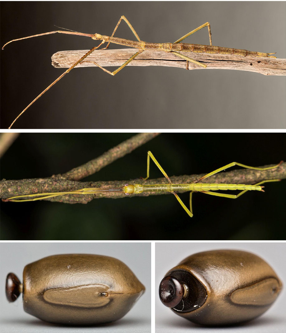 Female (top). Nymph (middle). Eggs (bottom)